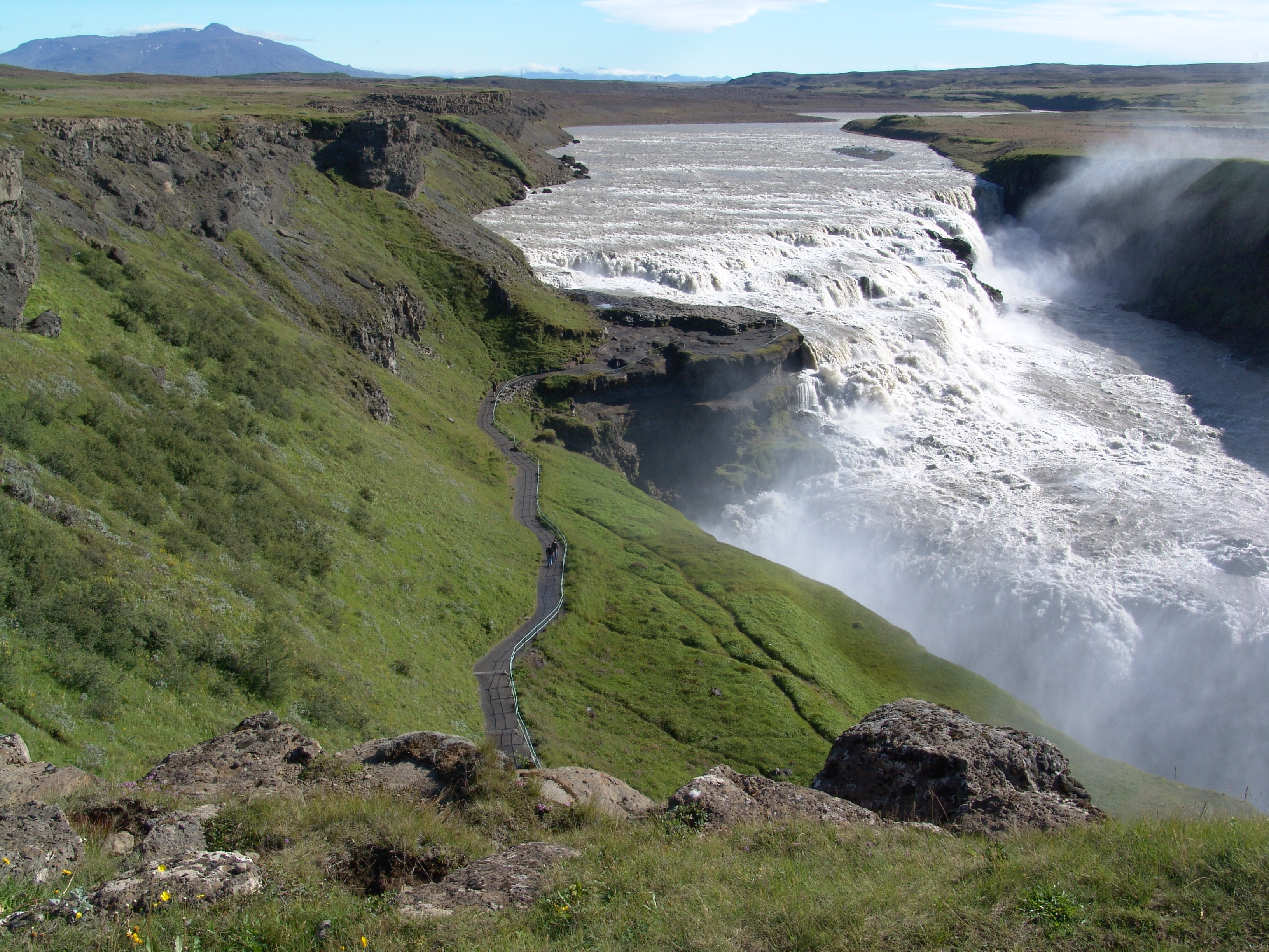 Gullfoss.